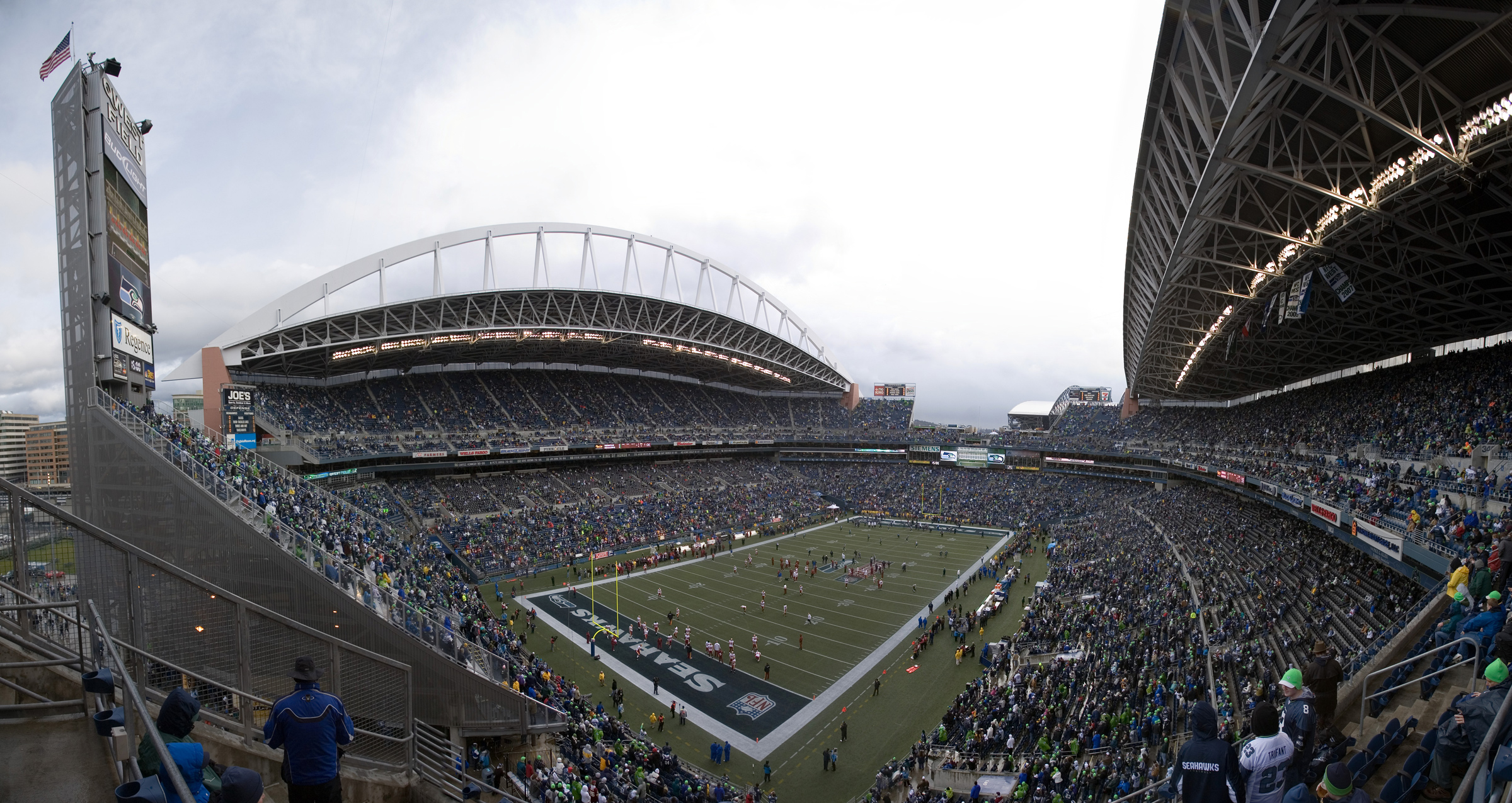 CenturyLink Field in Seattle, Washington during the pregame warmups for the Jaunary 5th, 2008 NFC Divisional Playoff between the Seattle Seahawks and the Washington Redskins. This is a stitch of 5 images.